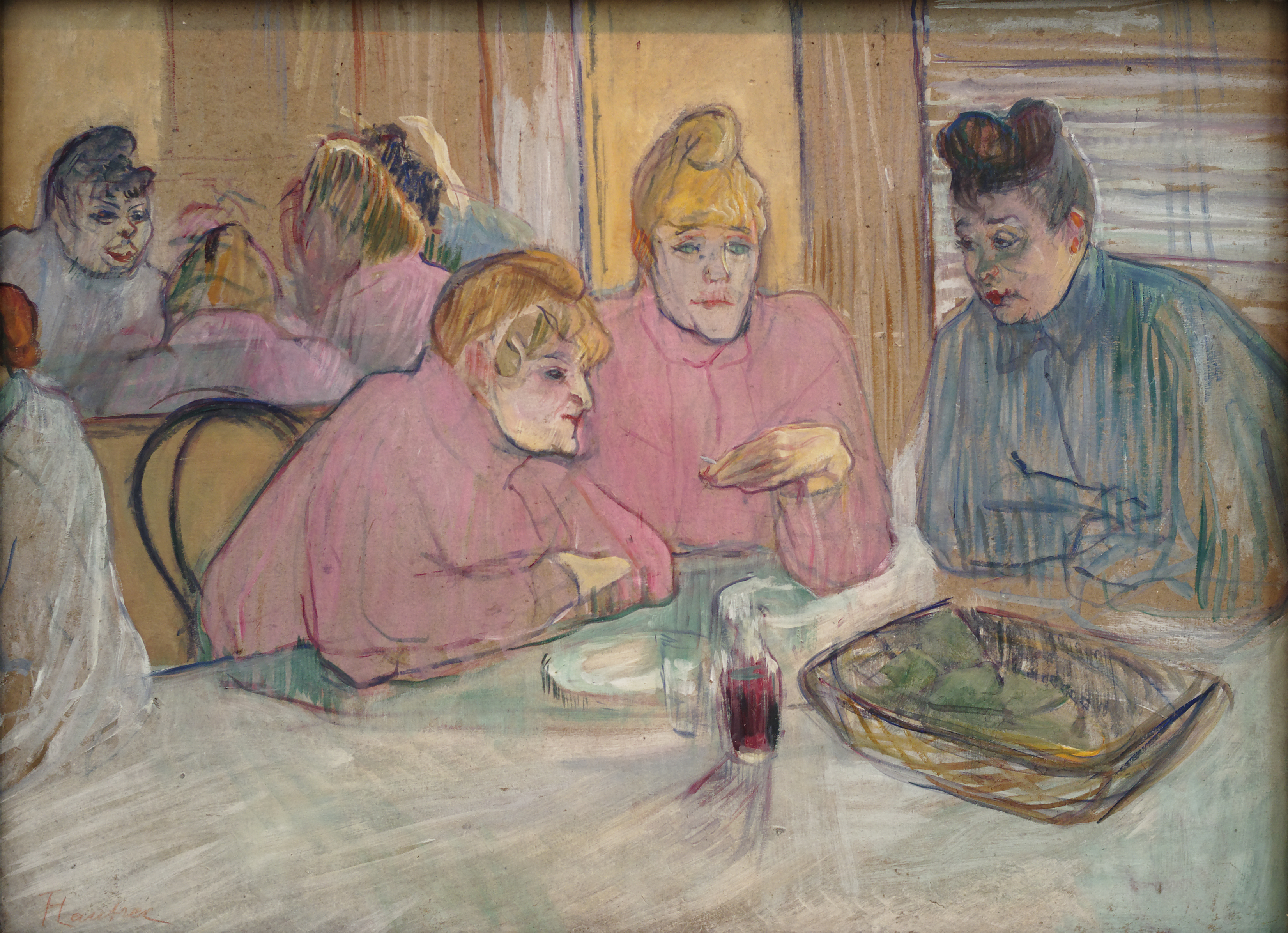 Ces dames au réfectoire (1893-1895). Henri de Toulouse-Lautrec. Exposed in the Budapest Museum of Fine Arts. Purchase in 1913.